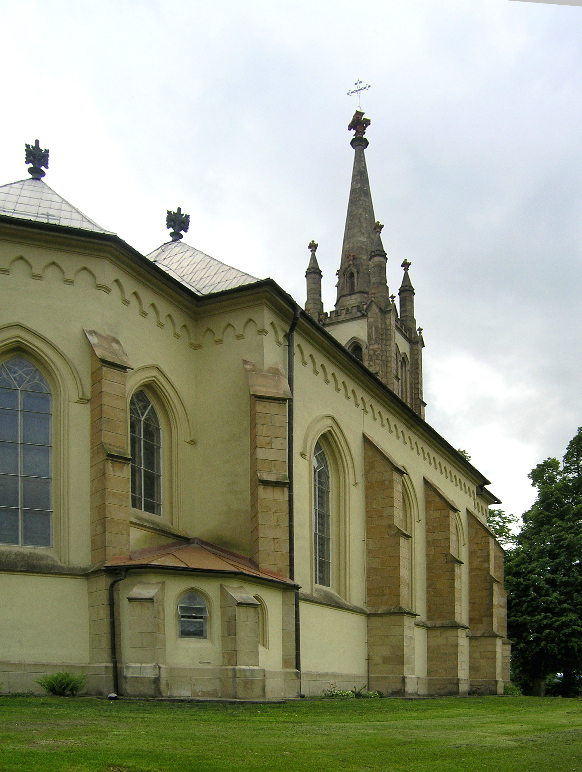 Church in Bratřejov, Czech Republic